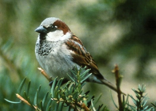 A male House Sparrow (Passer domesticus) at White Sands National Monument